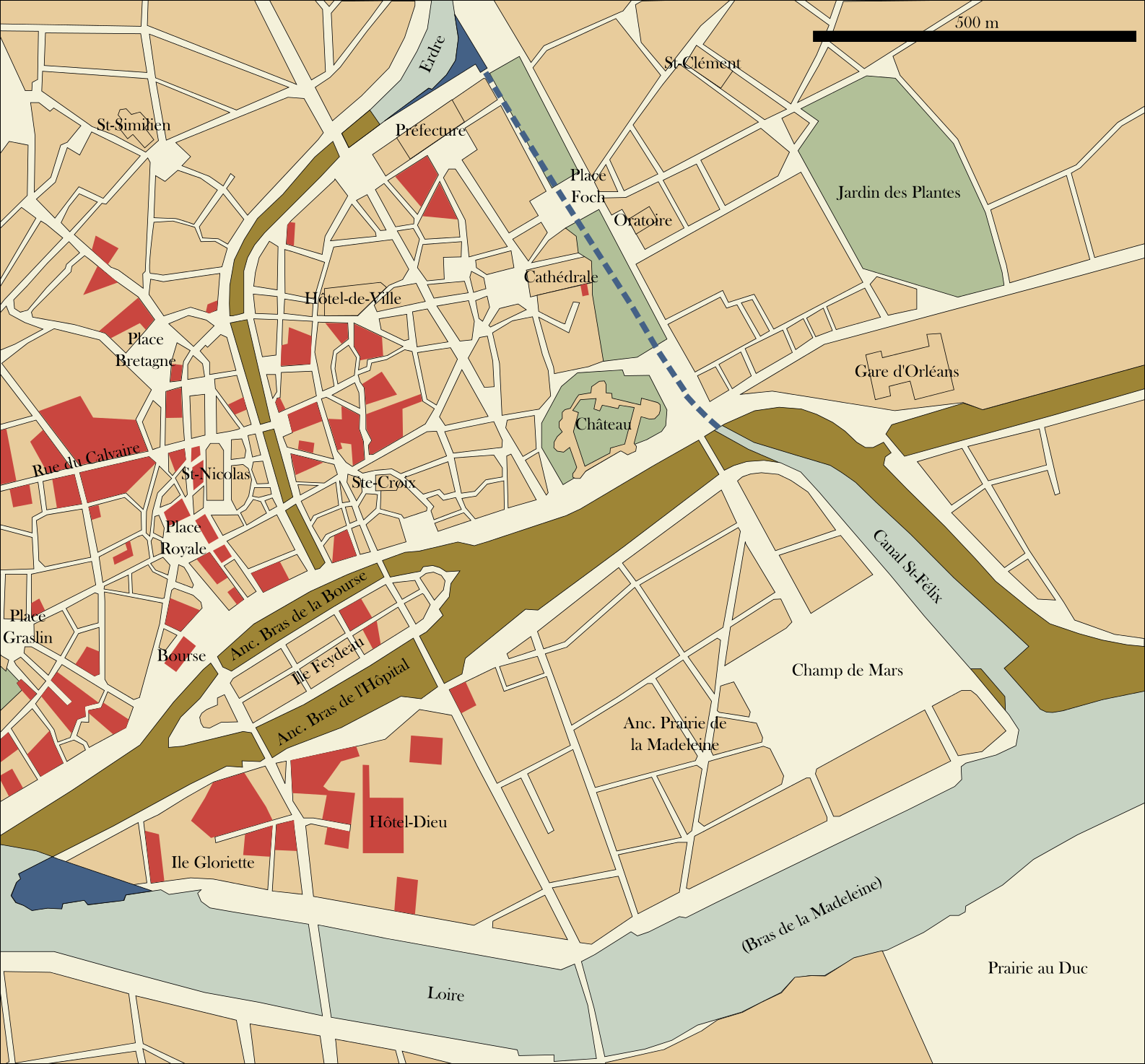 Map of Central Nantes in the first half of the 20th century (made after Plan de Nantes by Jouanne and Veloppé, 1916-1917 and Stadtplan von Nantes, 1941) showing in brown the waterways filled in 1926-1946. In red are showned buildings that were destroyed or severely damaged during the American raids in 1943 (according to Nantes bombardements 1939-1945, partially available here).